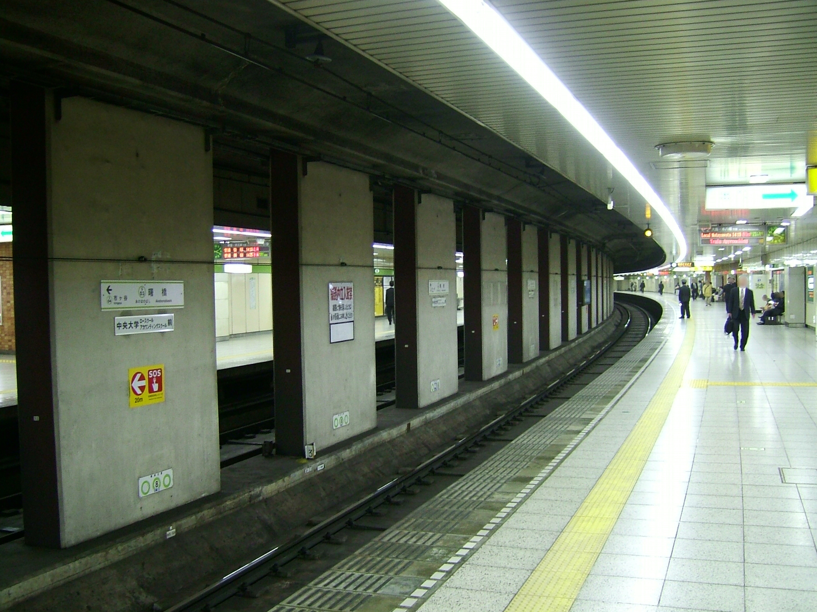 The Motoyawata-bound platform at Akebonobashi Station on the Toei Shinjuku Line in Shinjuku city, Tokyo, Japan